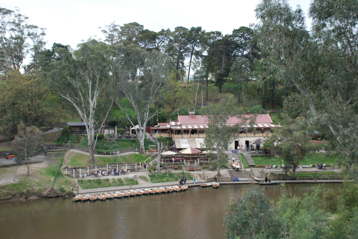 Fairfield boathouse, Melbourne, Australia